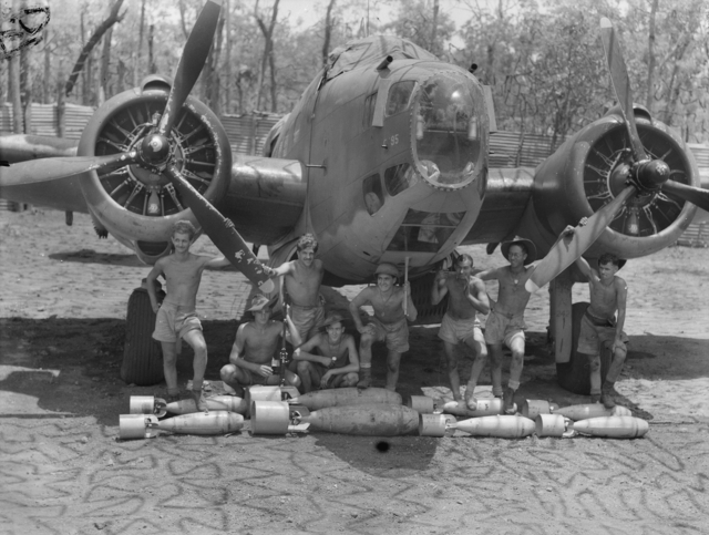 AWM caption : Australia: Northern Territory, Batchelor. Members of the crew and ground staff standing in front of a Lockheed Hudson bomber aircraft of No. 2 Squadron RAAF. Note the bombs ready to be loaded onto the aircraft. Leading Aircraftman Russell is standing second from left (3). The Hudson (constructor's no 6495) is A16-242, which, late in the evening of 13 March 1943 had departed from Batchelor with Hudson A1 6-238 to carry out an anti-submarine patrol ahead of 'Bathurst' class minesweeper HMAS Latrobe which was escorting ammunition supply issuing ship SS Darvel and SS Burwah. These merchantmen usually ran supplies from Darwin to such locations as Thursday Island and Millingimbi. Pilot Flying Officer Graham was forced to crash land A16-242 at Annisley Point on the Coburg Peninsula early the next morning and the Hudson was written off and converted to components. The crew were uninjured.